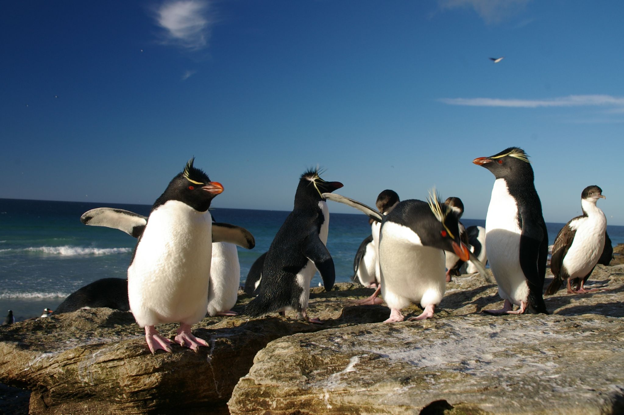 (Southern) Rockhopper Penguins (Eudyptes chrysocome), Saunders Island, Falkland Islands